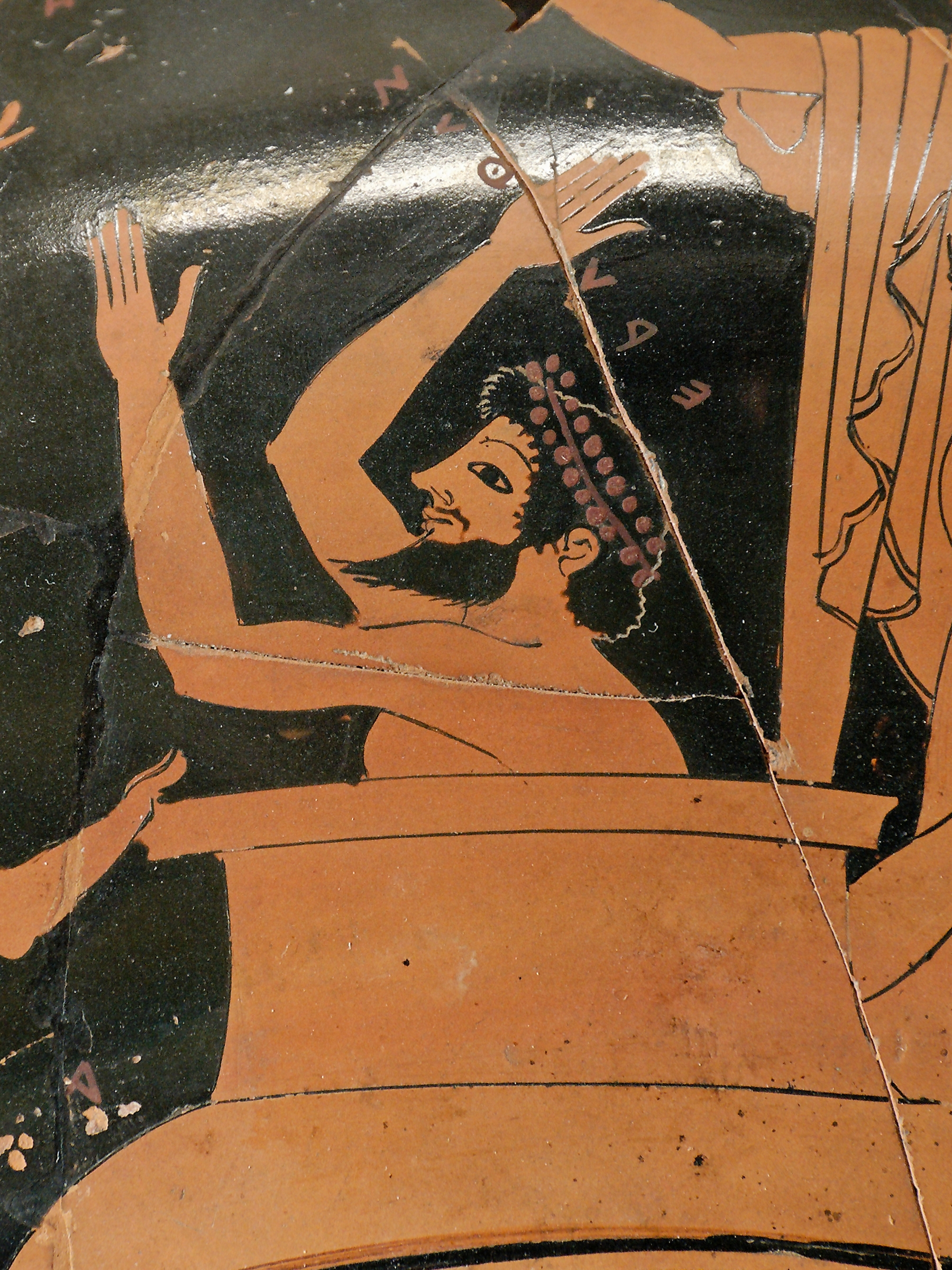 Eurystheus hiding in a jar as Herakles brings him the Erymanthian boar. Side A from an Attic red-figure cup, ca. 510 BC.